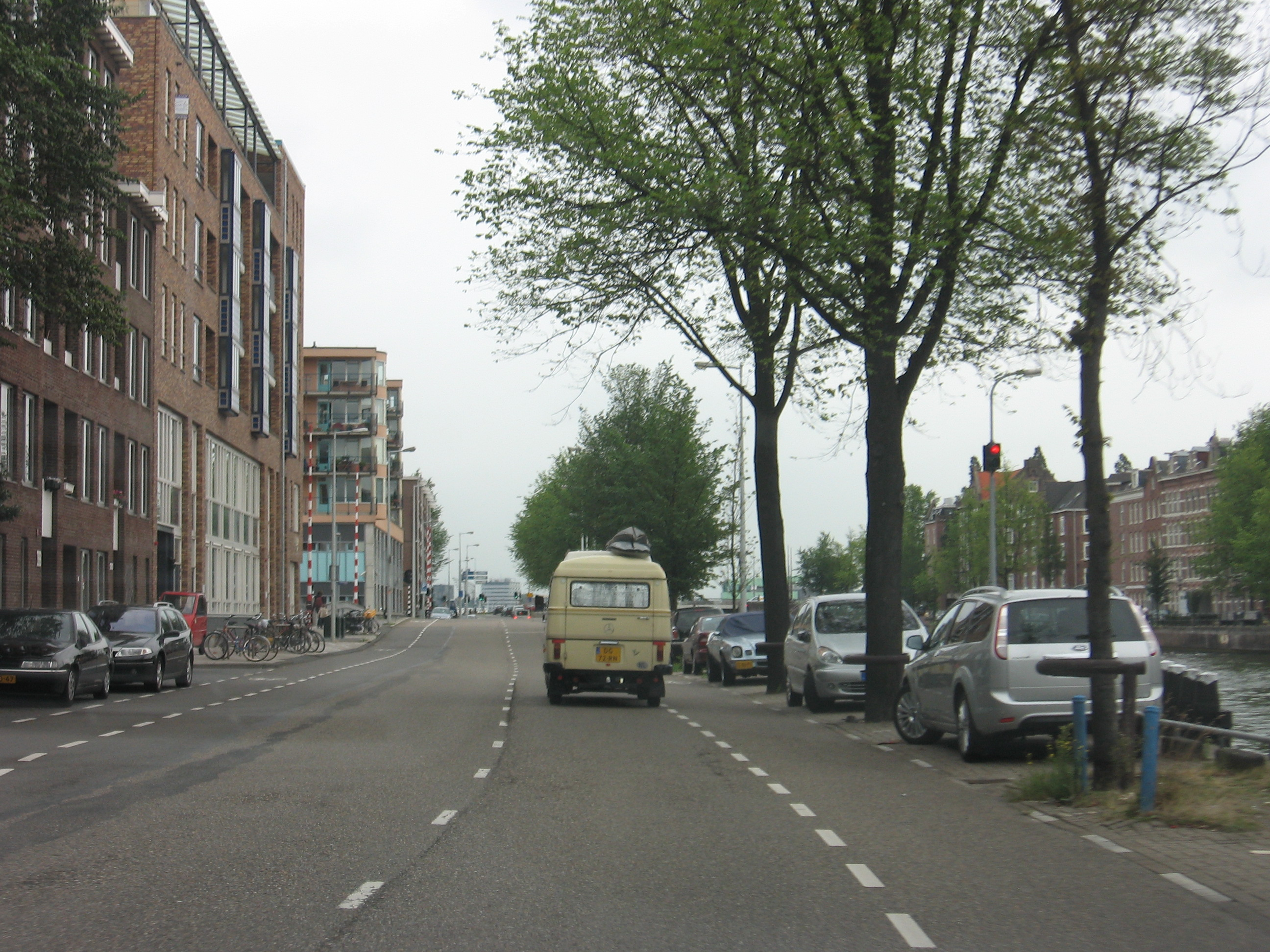 Houtmankade